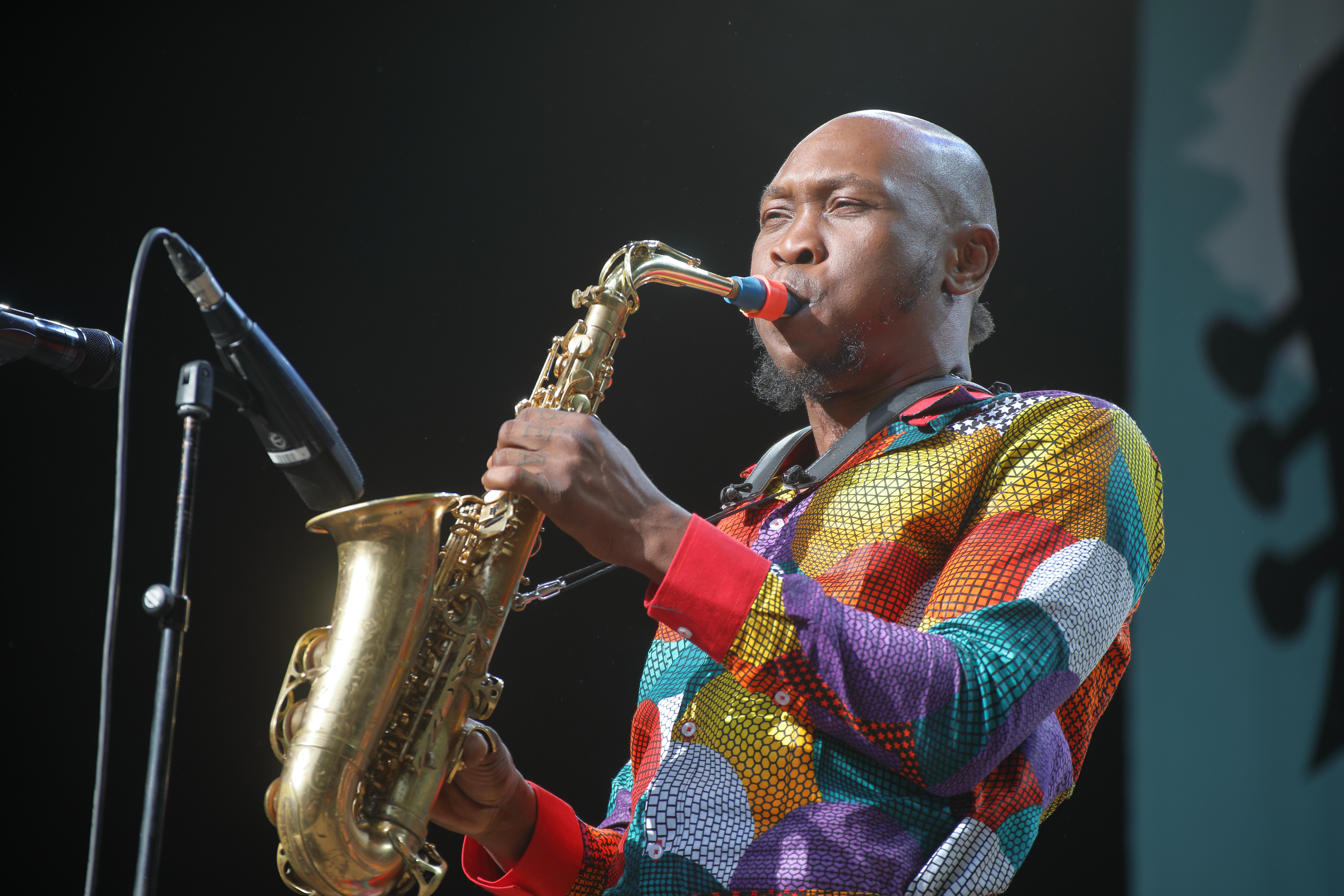 Seun Kuti & Egypt 80 at Rudolstadt-Festival 2019.